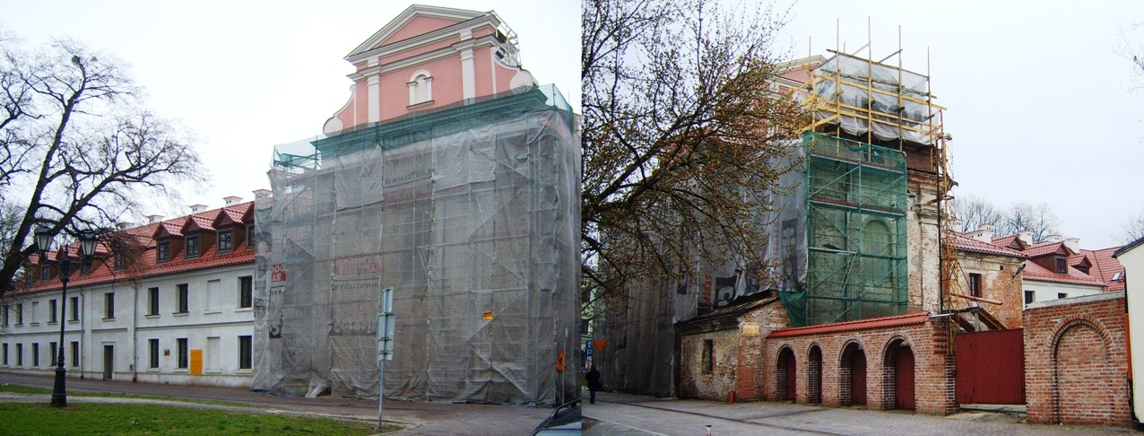 Former monastery and church of Poor Clare Sisters in the Old Town in Zamość during repair - on left side view from north, on right side view from south (2009).